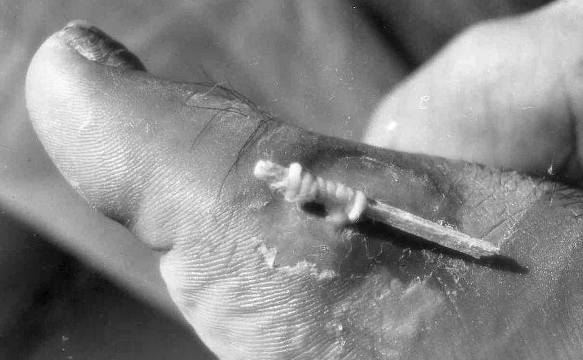 Female Dracunculus medinensis worm being removed by winding on a stick.